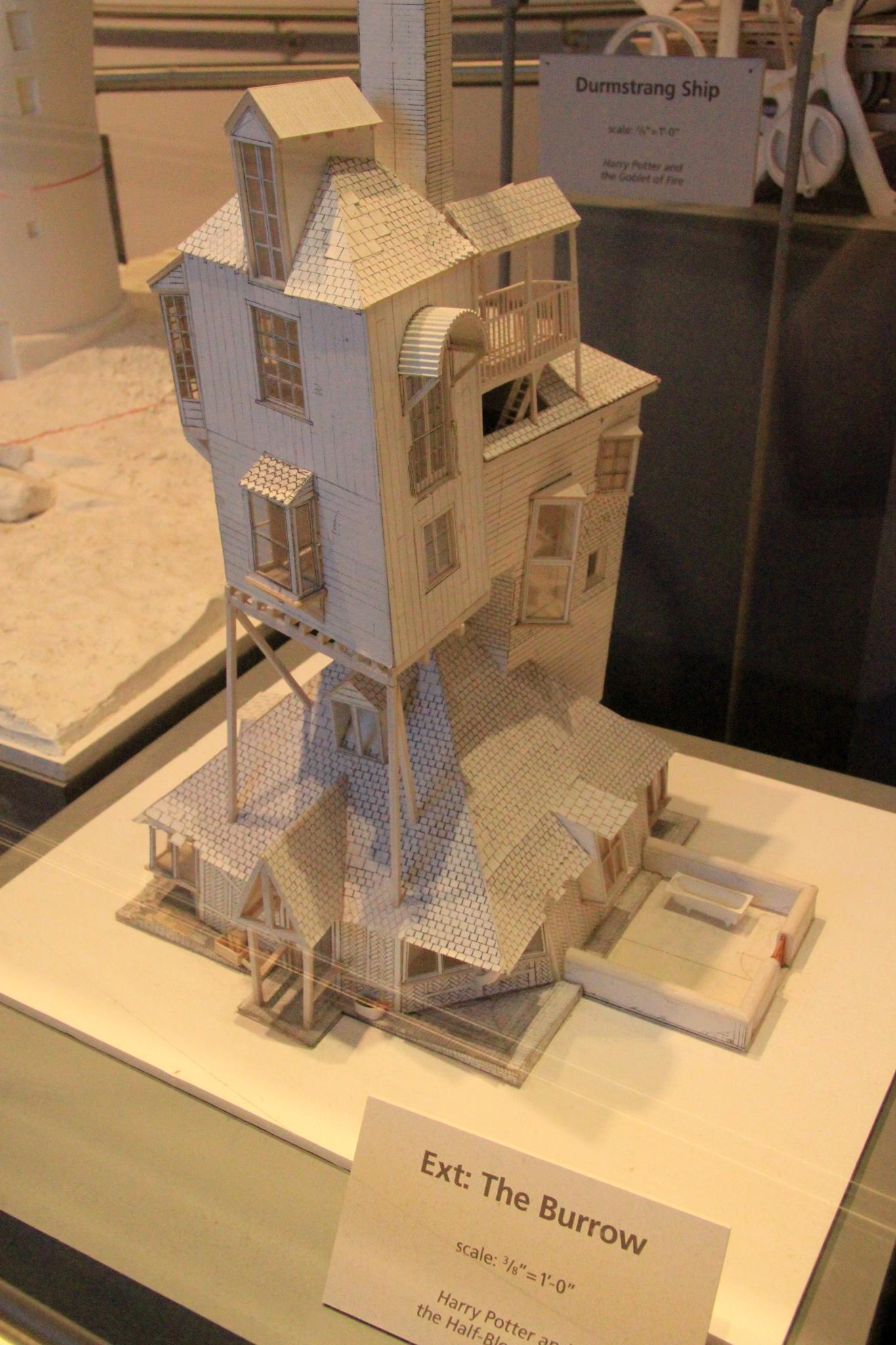 Warner Bros. Studio Tour London: The Making of Harry Potter.